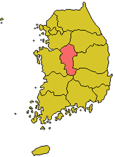 Diocese of Cheongju